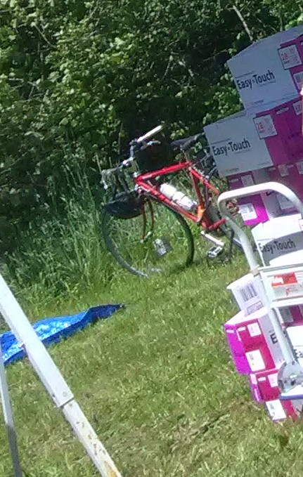 Syringe service programme in Portland Oregon